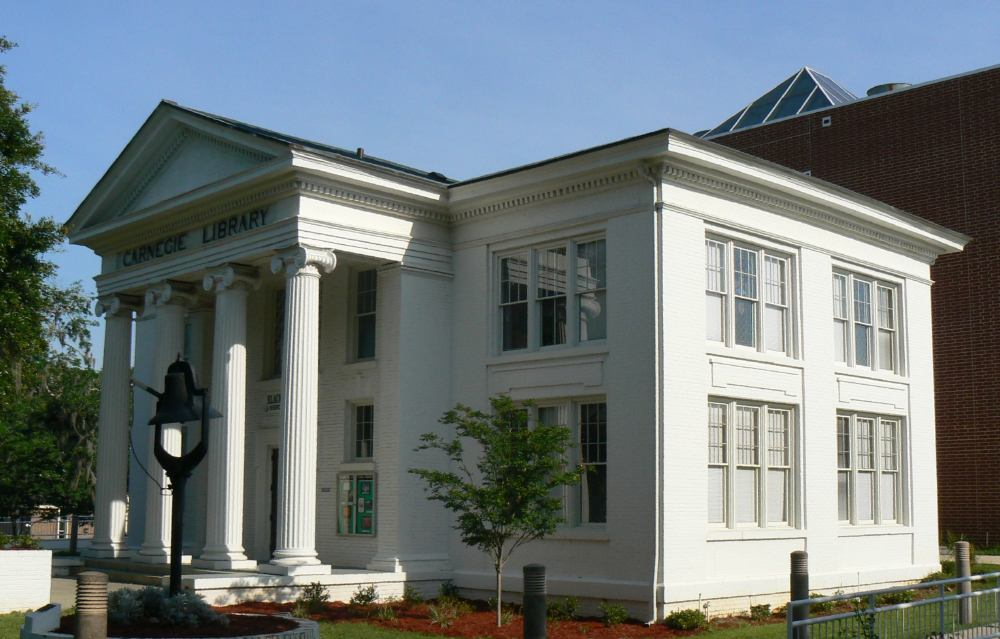 The Carnegie Library at Florida A & M University, in Tallahassee, Florida. This building is on the U.S. National Register of Historic Places.